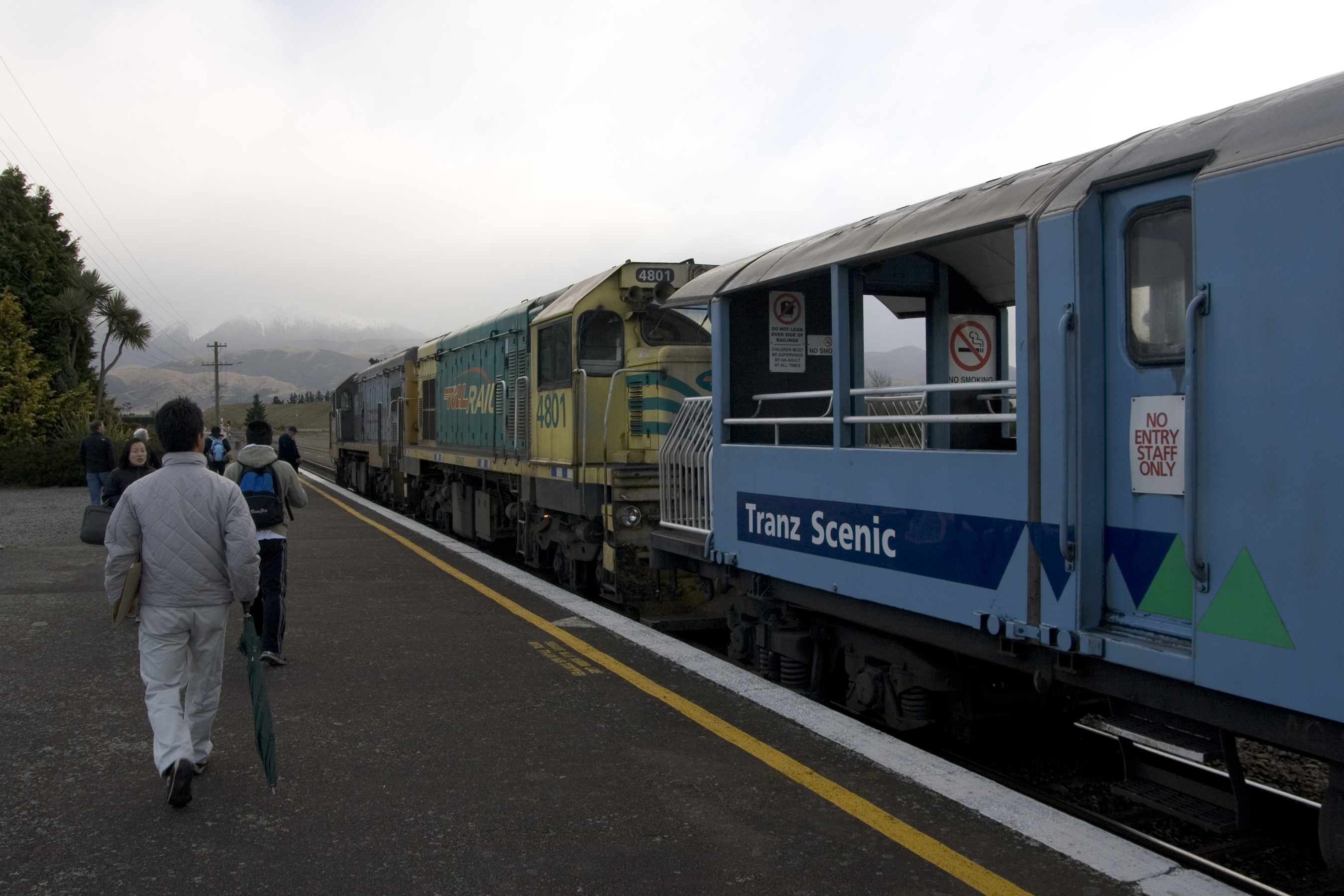 Locomotive and open viewing platform of TranzAlpine train